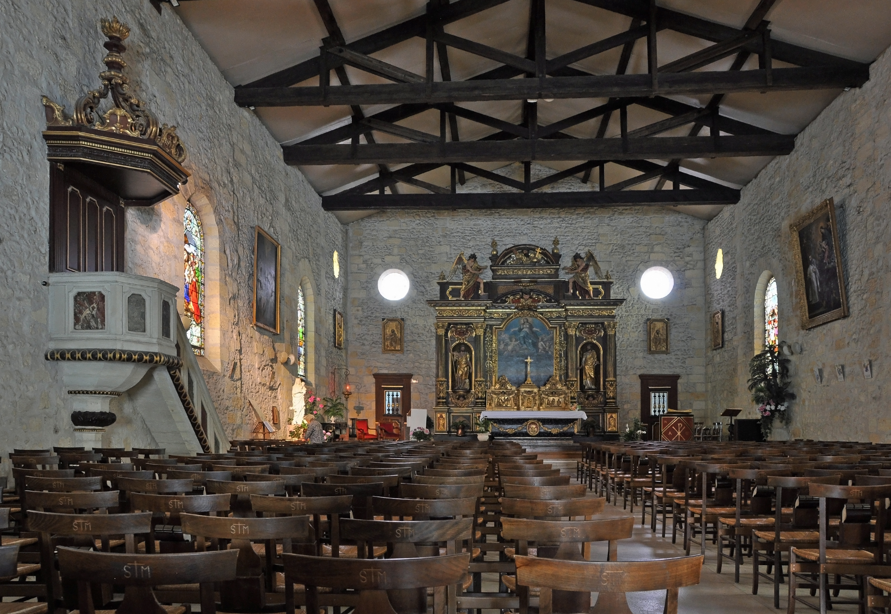 Pessac (Département de la Gironde, France): Saint-Martin church, interior